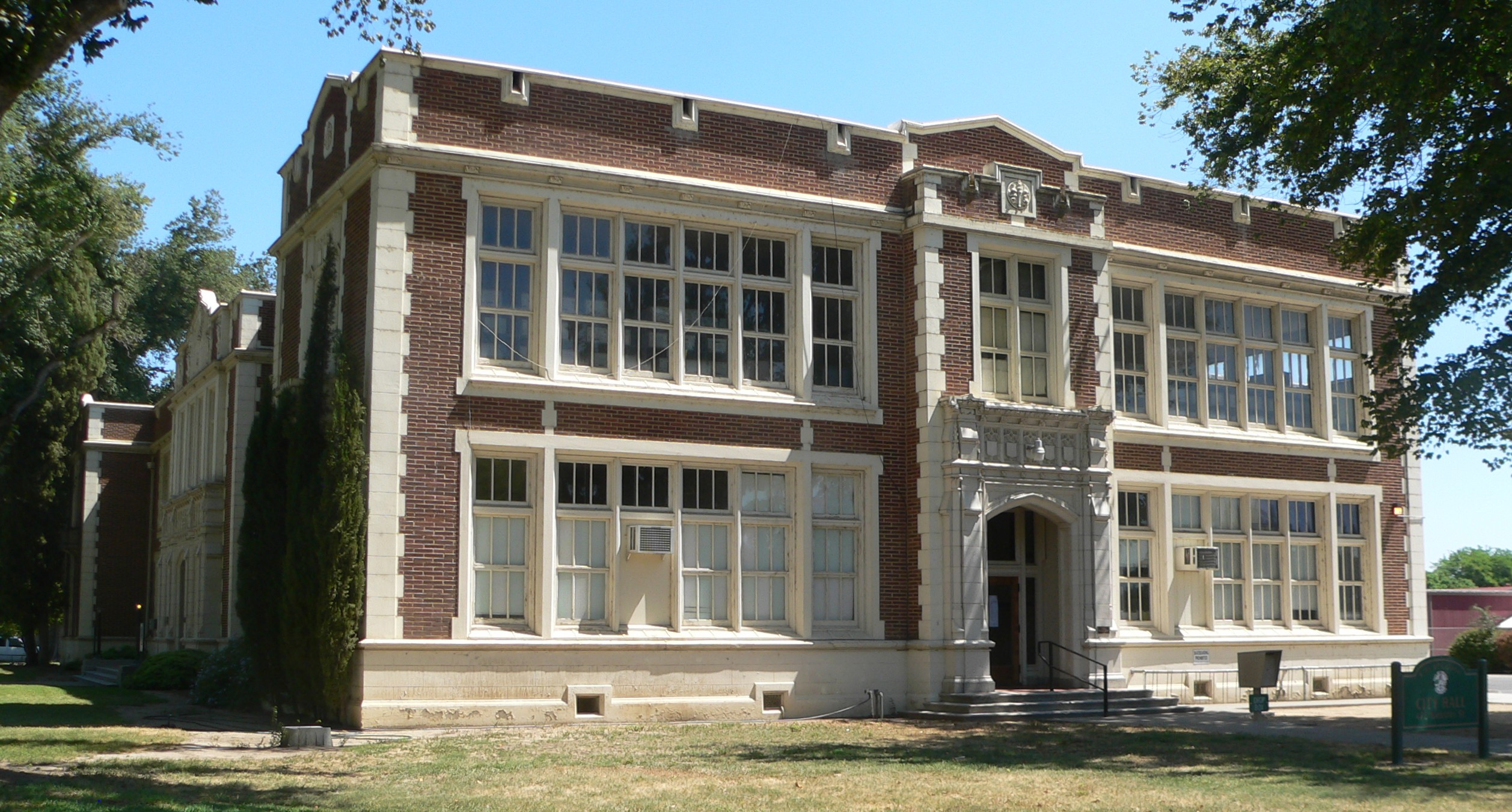 Colusa City Hall, formerly Colusa Grammar School, located at 425 Webster Street in Colusa, California; seen from the northwest, from 5th Street.